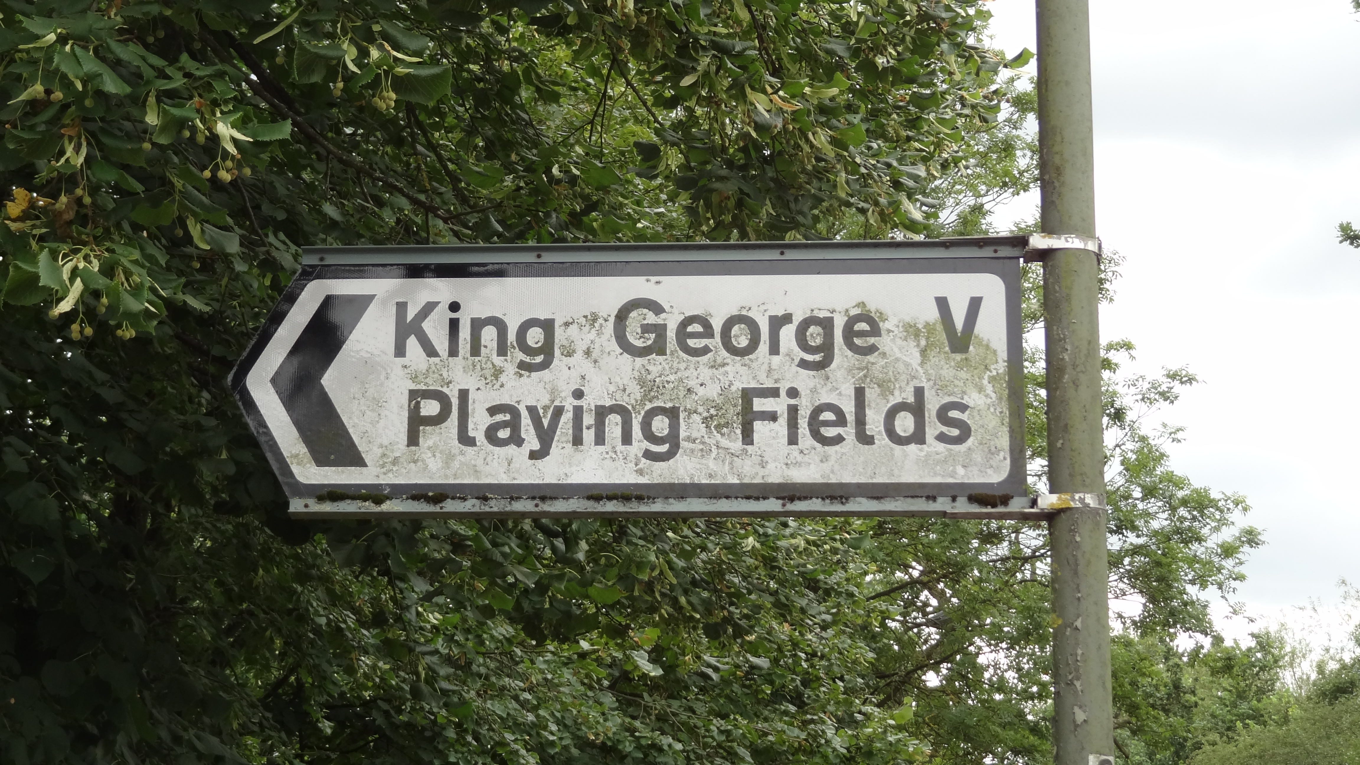 Sign to King George V Playing Fields, south east of the junction between Dollis Brook and Barnet Lane, Totteridge, Barnet, London